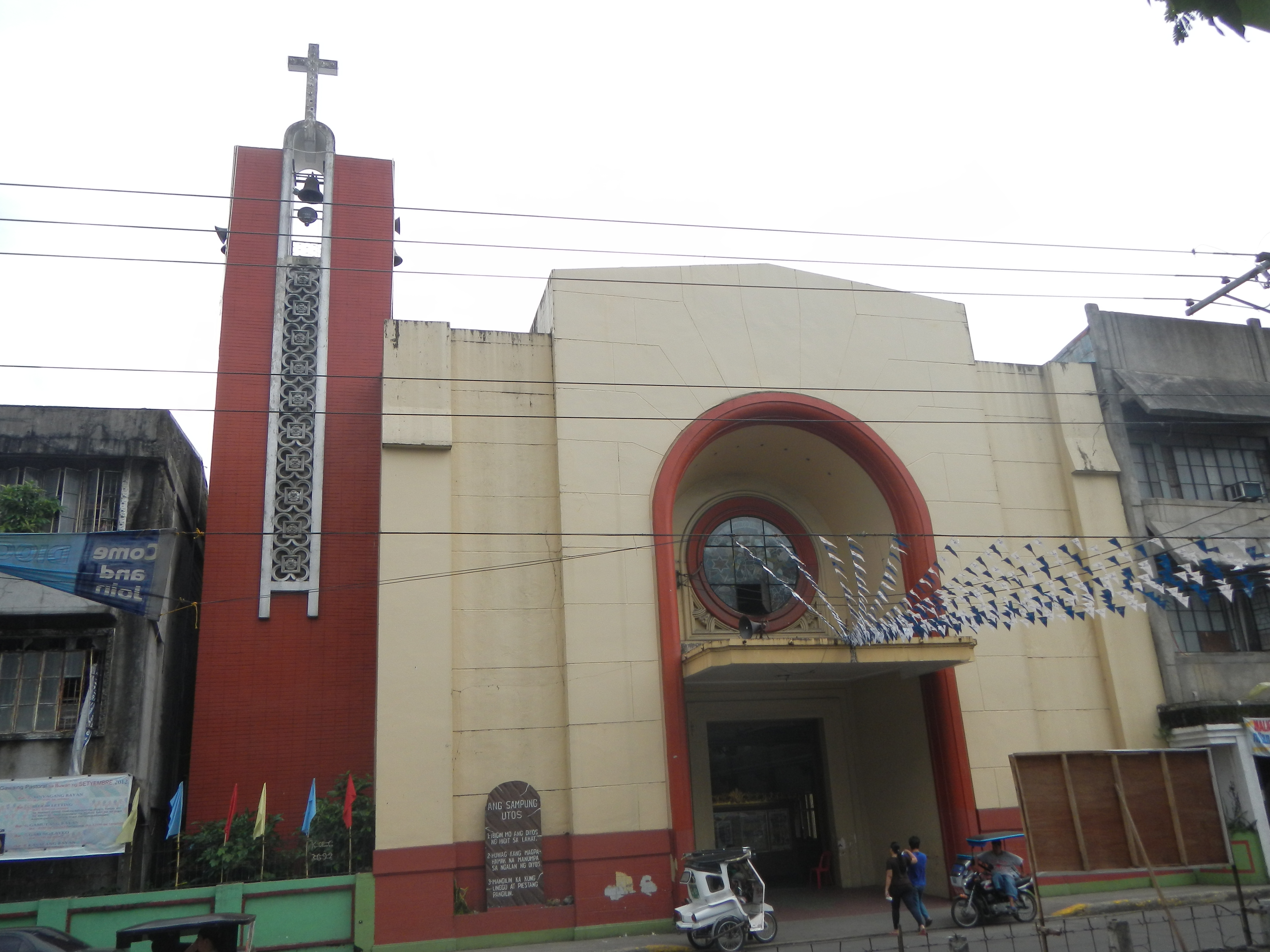 Cabanatuan St. Nicholas of Tolentine Cathedral